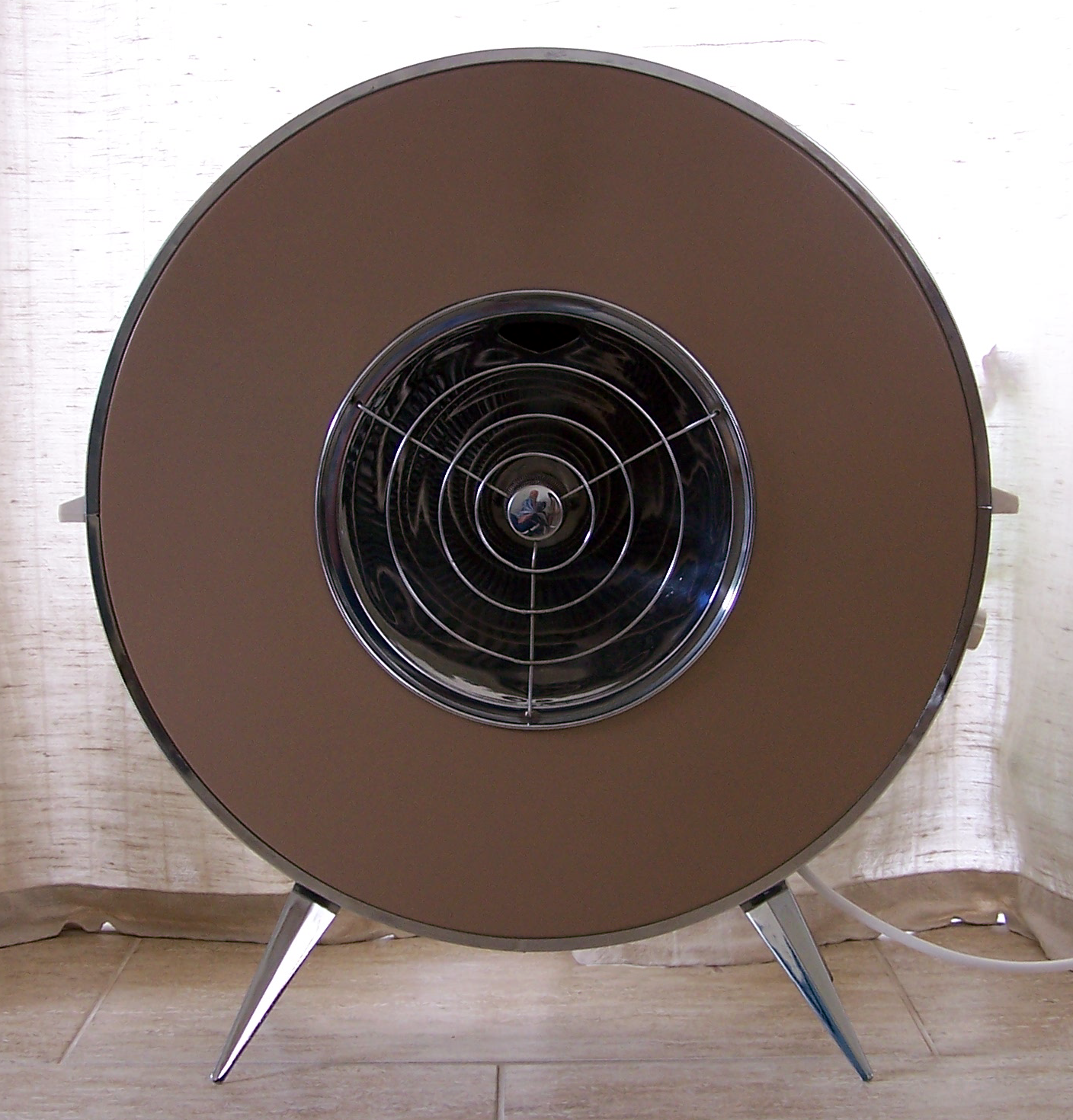 A "retro" domestic electric heater made in the UK from 1959 - see Sofono Spacemaster.